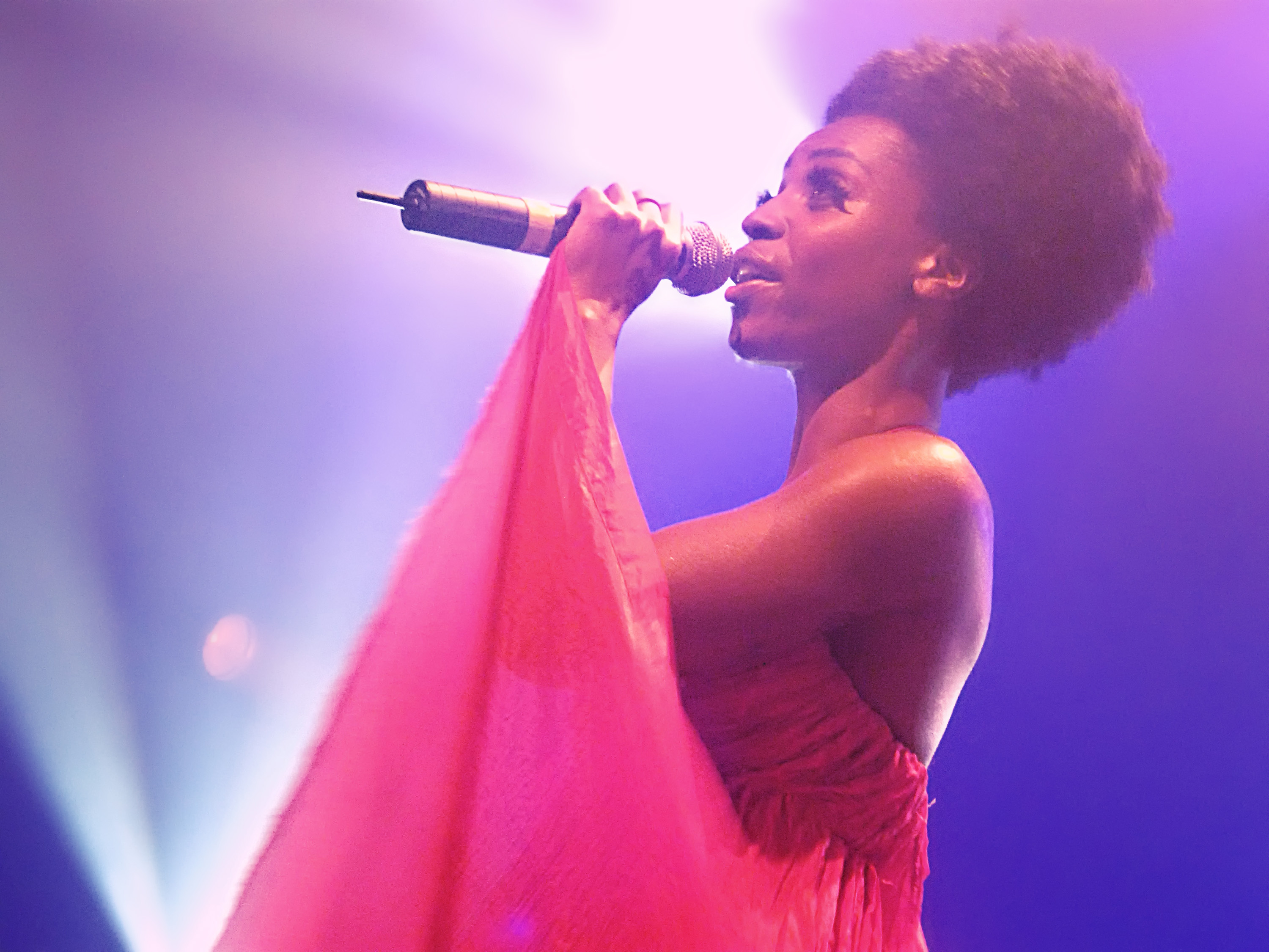 Skye Edwards performing live with Morcheeba at Le Bataclan de Paris, 2010.